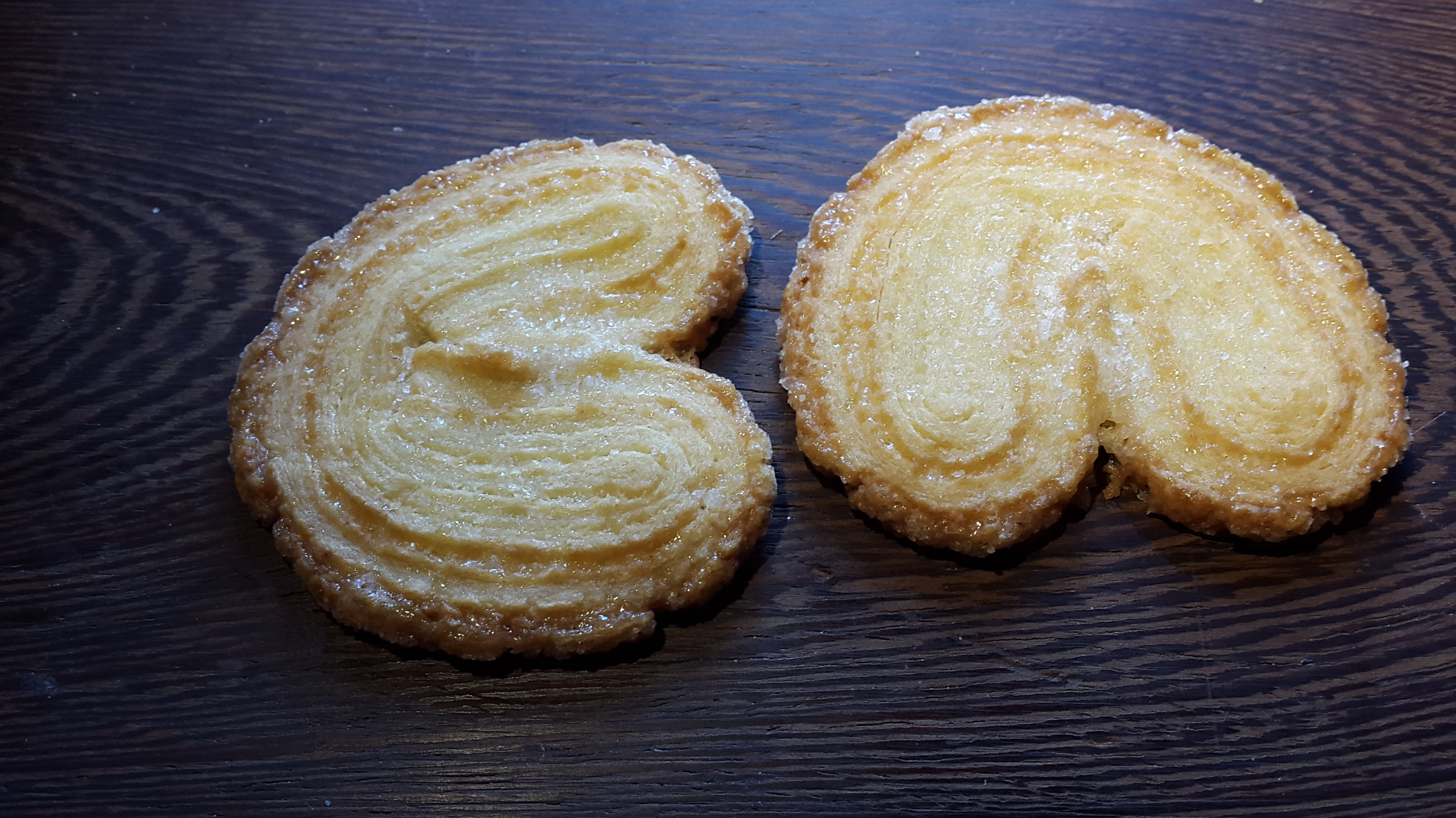 Pig's ear pastries